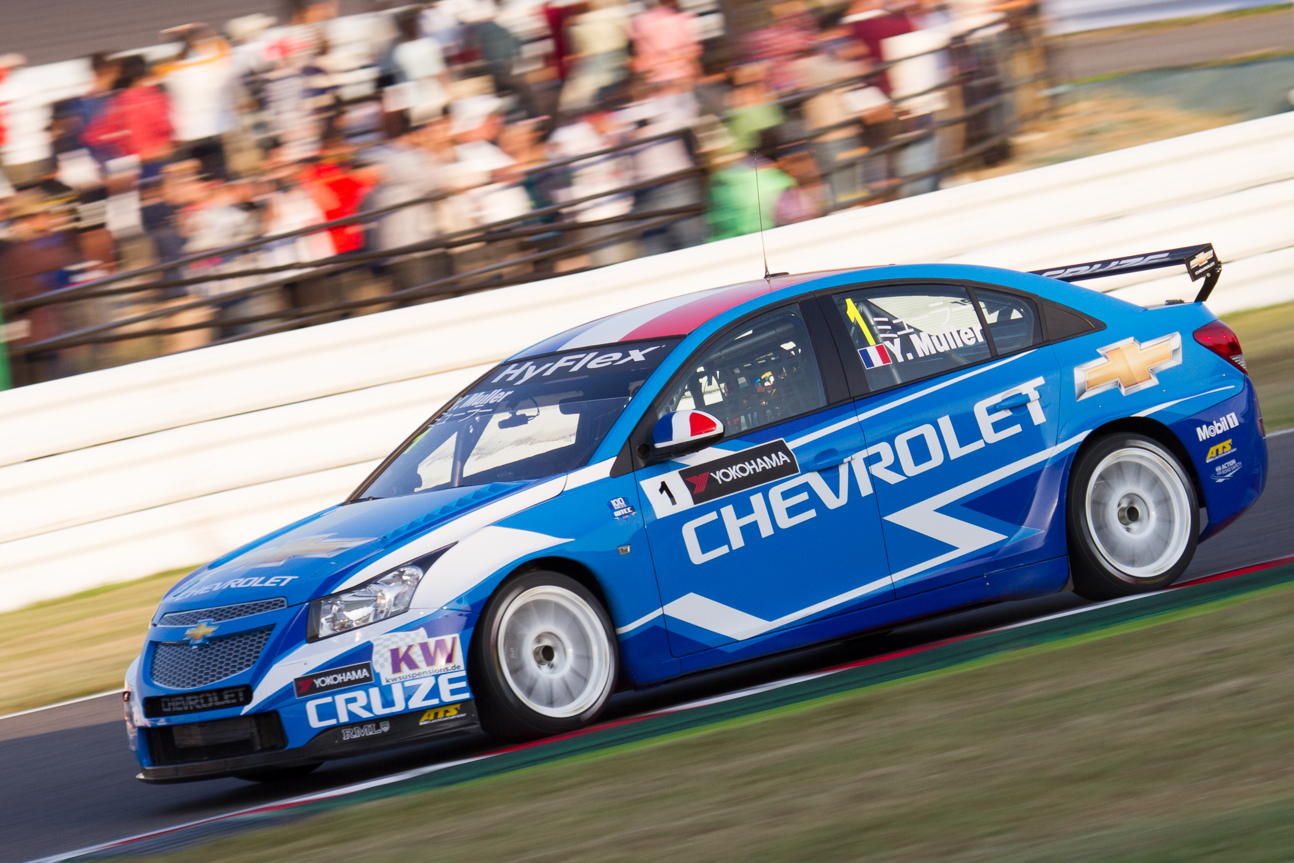 World Touring Car Championship 2012 Race of Japan: Yvan Muller (Chevrolet) driving the Chevrolet Cruze WTCC